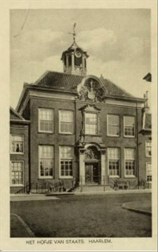 Hofje (Almhouse) van Staats, Jansweg 39, Haarlem in 1925. Frontbuilding.